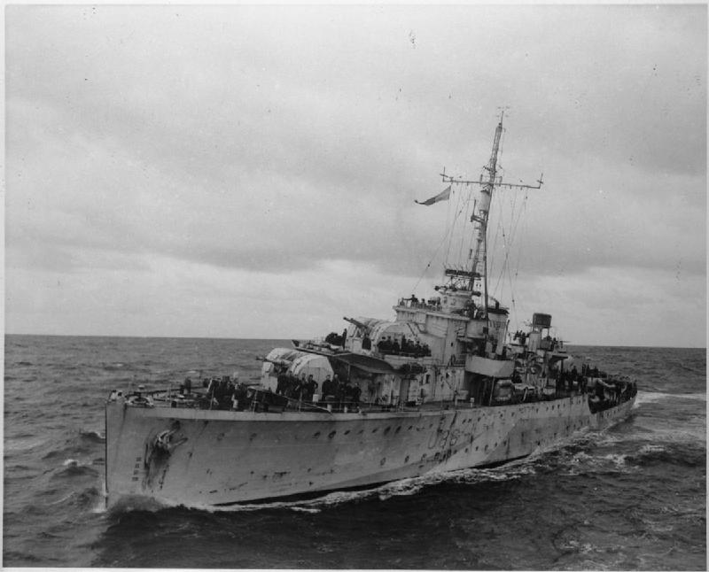 Photograph of British sloop HMS Pelican.